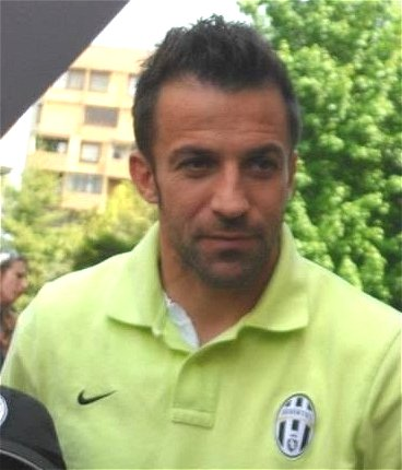 The Italian footballer Alessandro Del Piero in Novara, April 2012